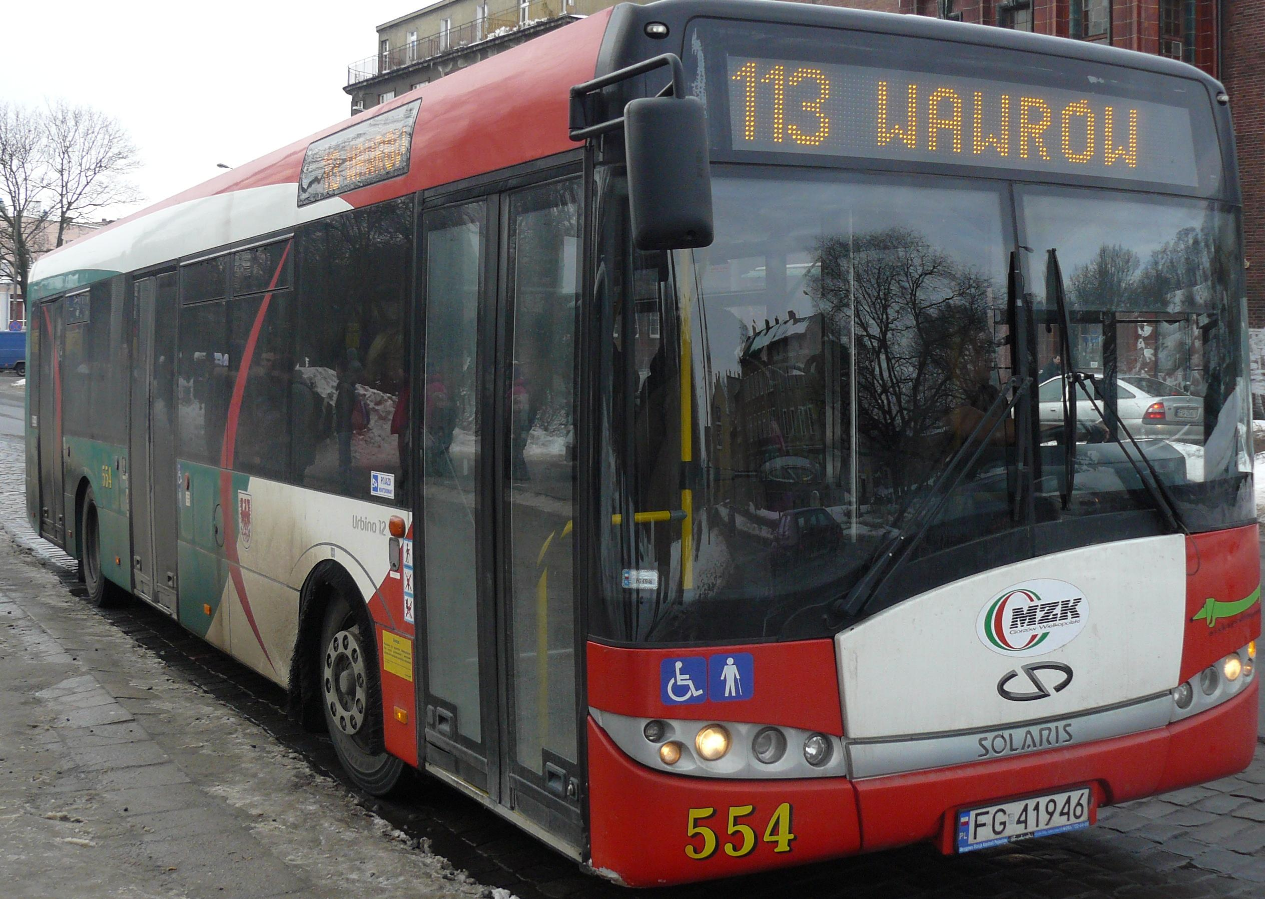 Solaris Urbino 12 W6 Mk3 bus (#554) at Łaźnia bus stop in Gorzów Wielkopolski, Poland. Built 2006, MZK Gorzów Wielkopolski operator.